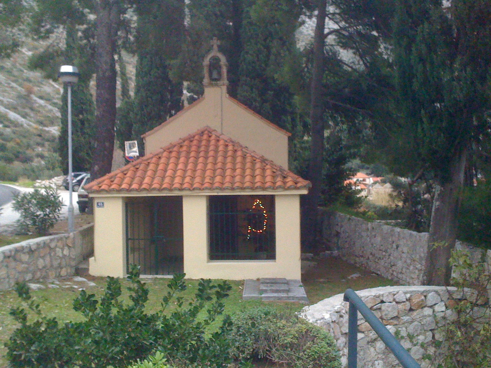 Nativity of Mary Church, Zaton